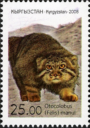 Postage stamp of Kyrgyzstan, Pallas' Cat (Felis manul), 2008